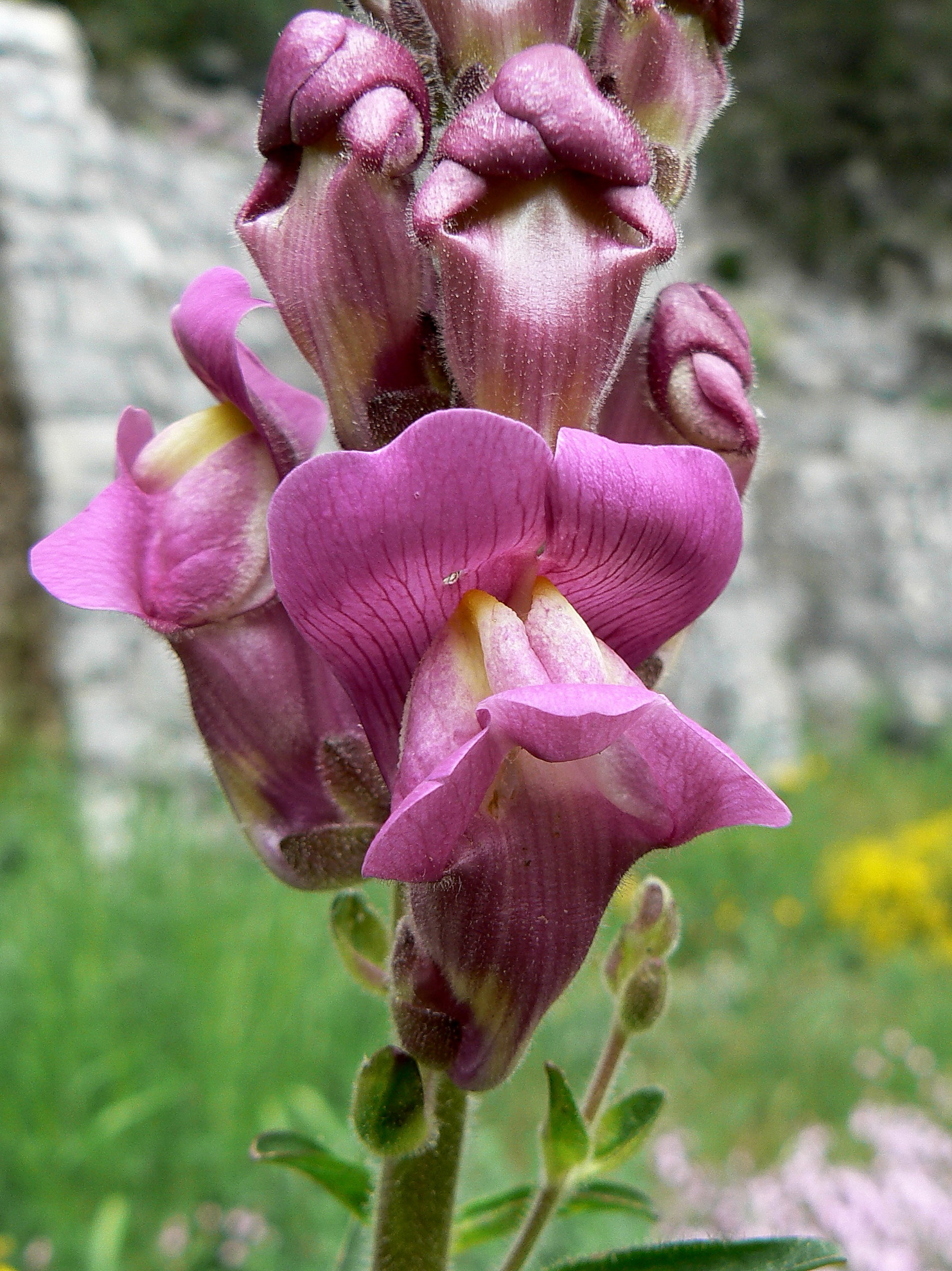 Antirrhinum majus, Gorges de la Vis, France